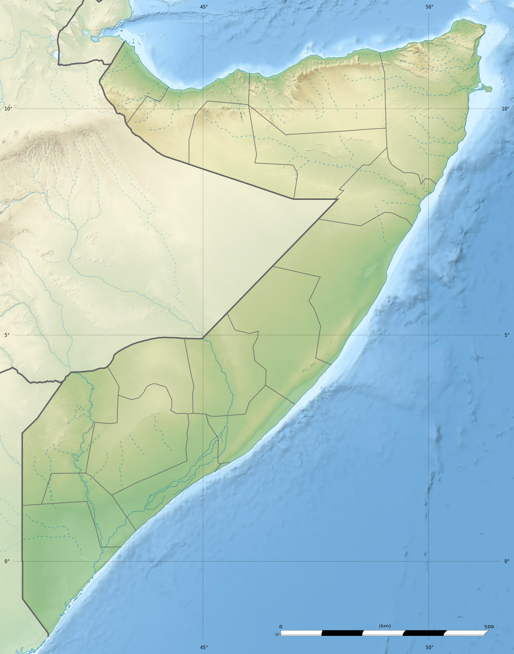 Blank physical map of Somalia, for geo-location purposes.